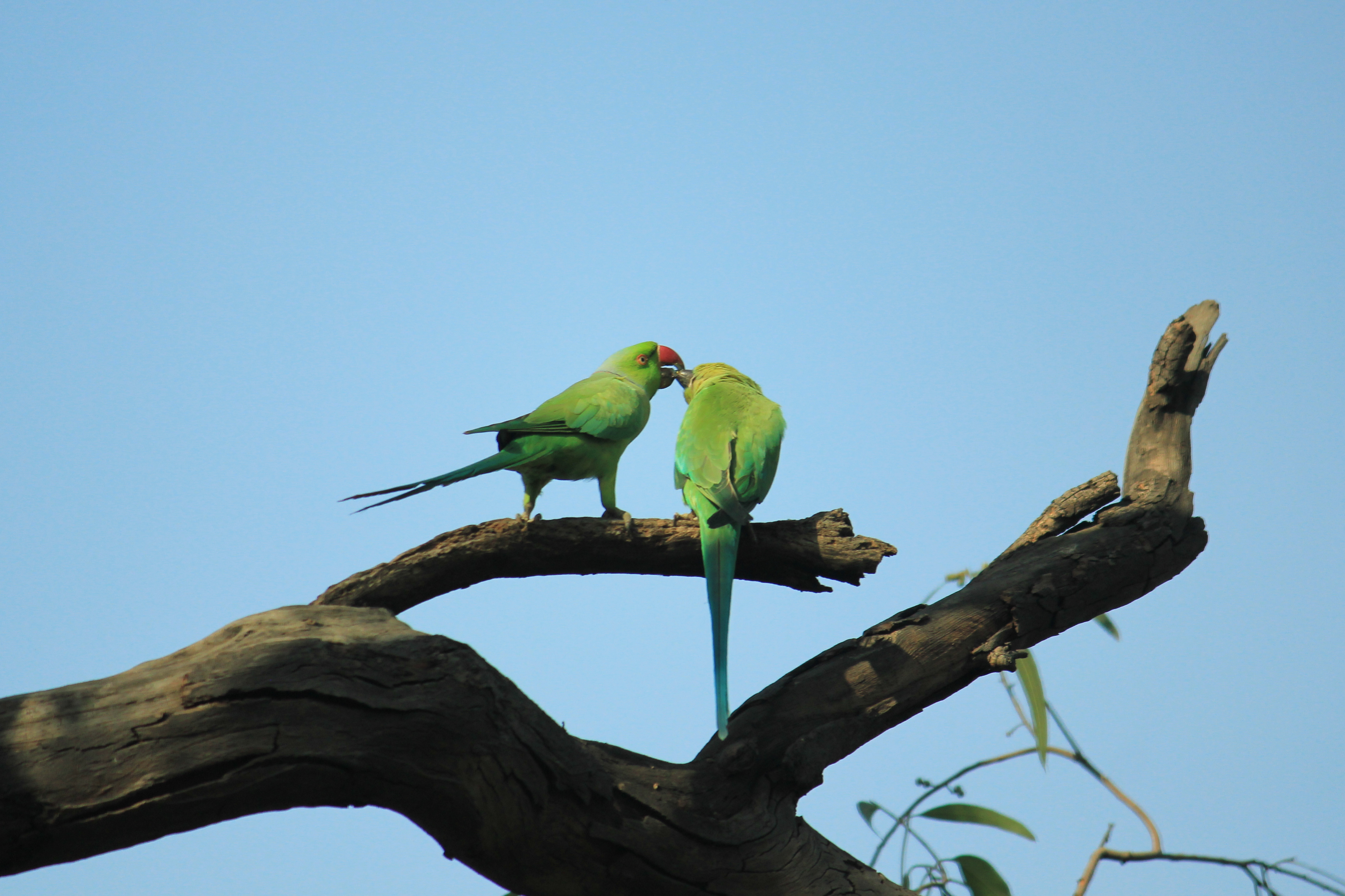 this couple was playing out beside their tree hole(not seen).